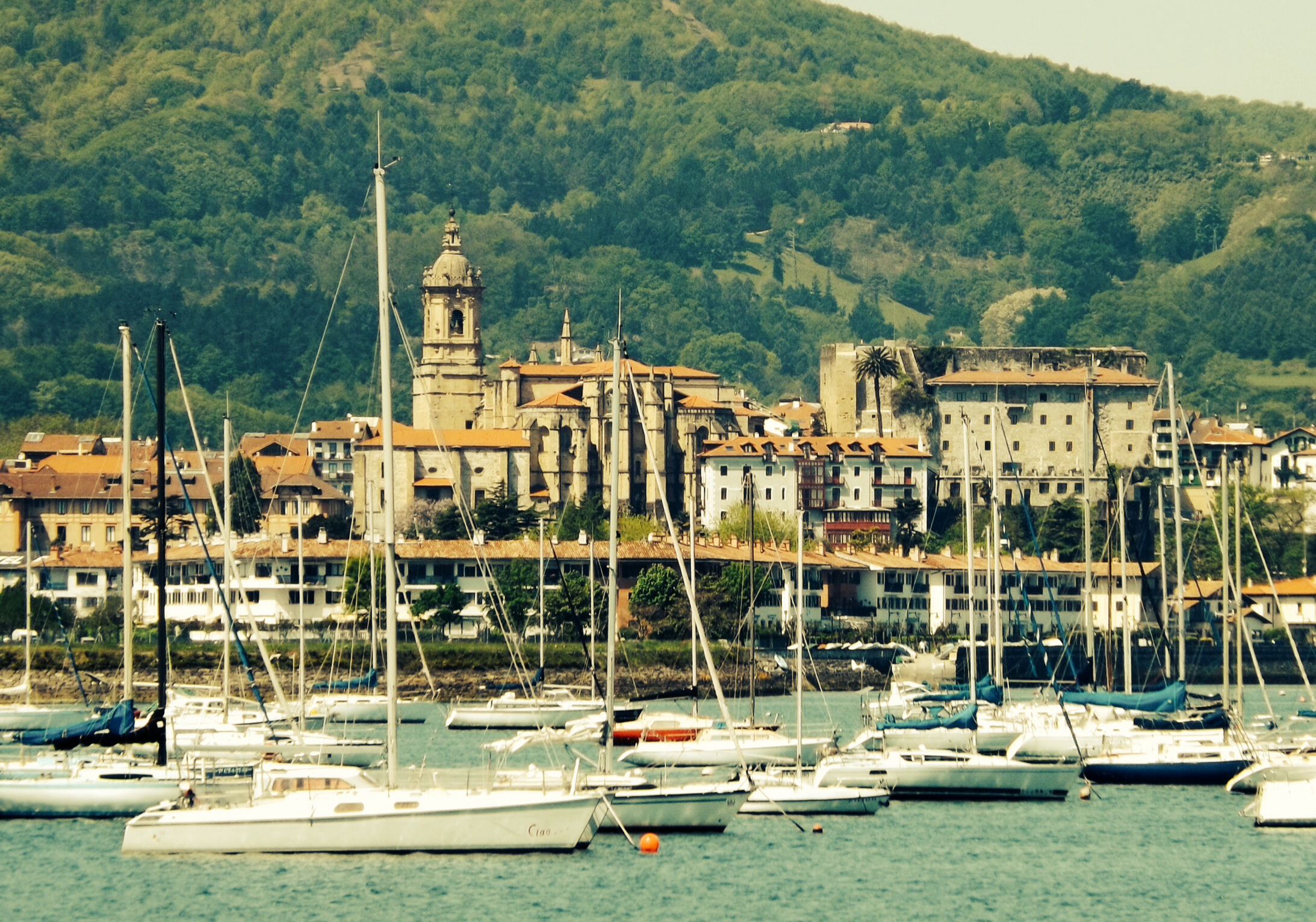 Fontarrabie vue depuis Hendaye